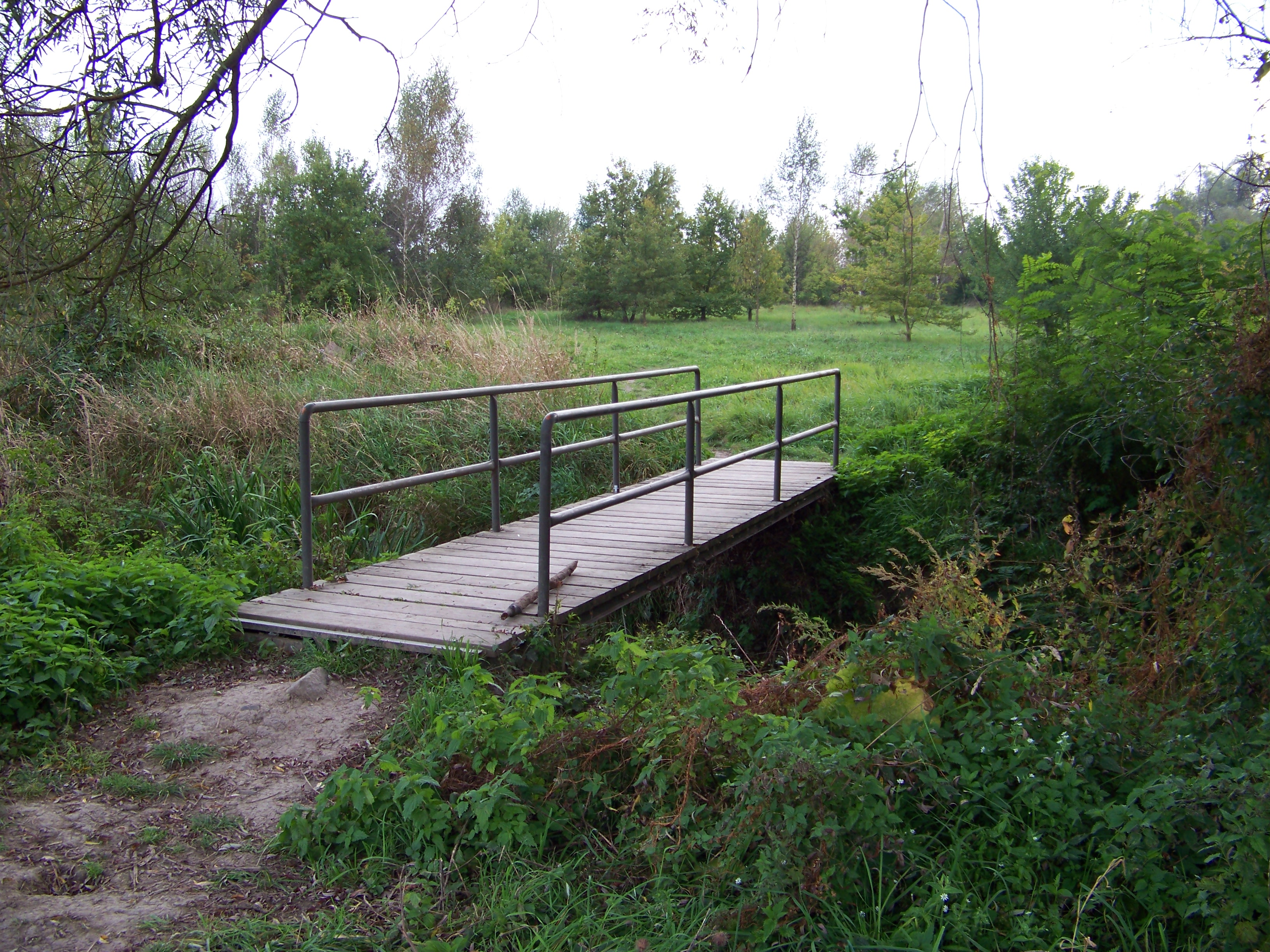 Prague-Dubeč, Czech Republic. Říčanka creek, a footbridge.